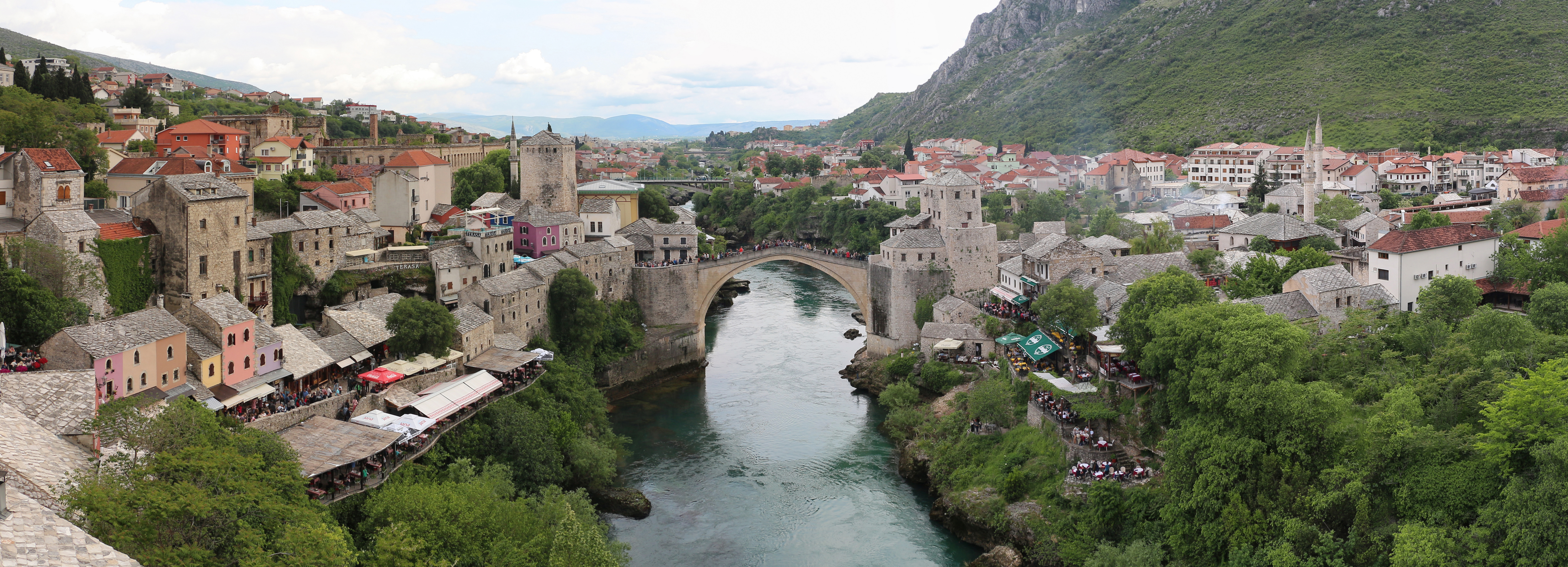 Stari Most viewed from Koski Mehmed Pasha Mosque, Mostar, Bosnia and Herzegovina